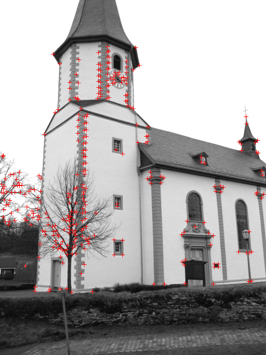 Epipolar geometry: Detected corners in left image of a church.